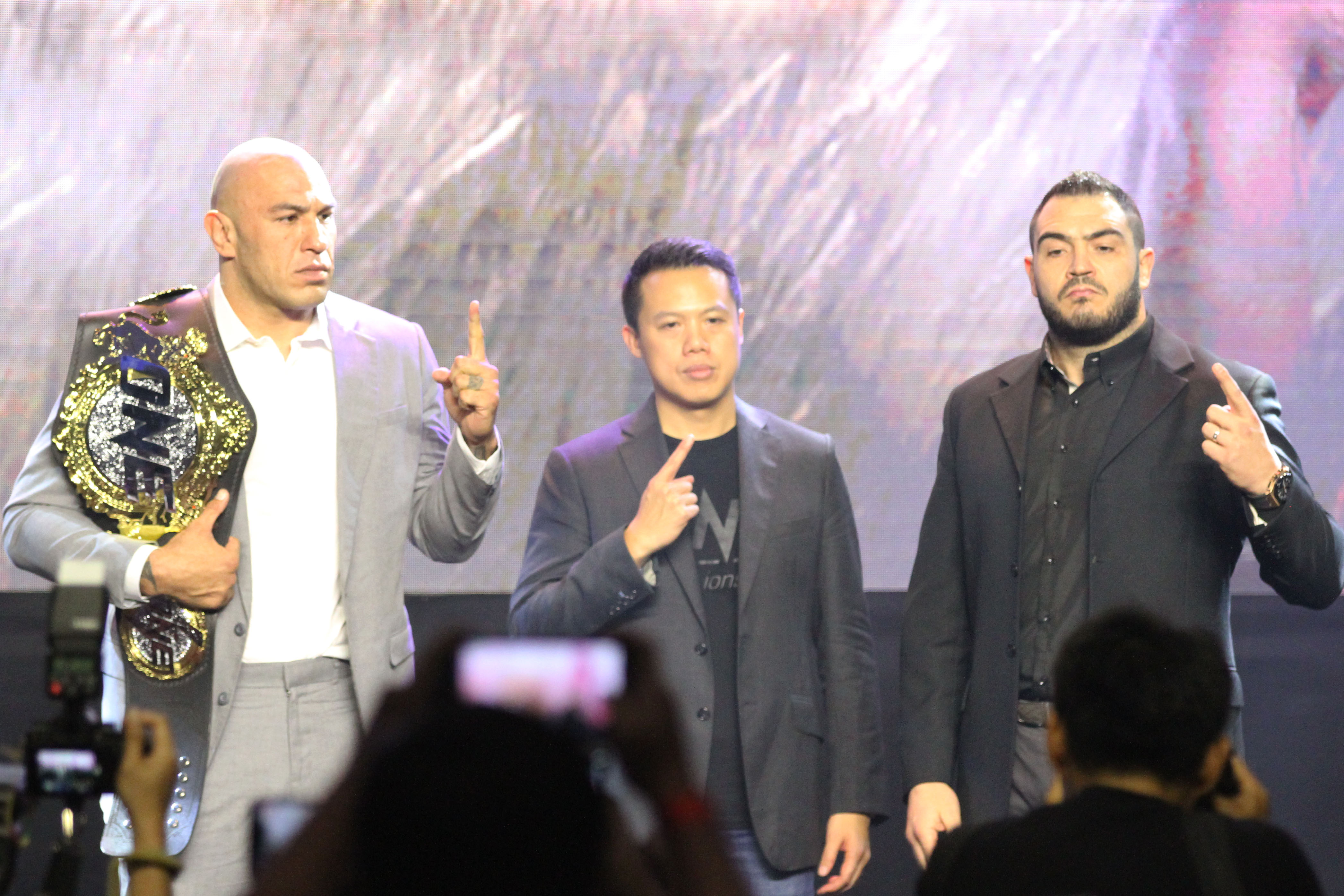 Defending heavyweight champion, Brandon Vera from the Philippines (left), and his challenger, Mauro Cerilli of Italy, pose during the ONE Championship "Conquest of Champions" press conference at the City of Dreams ballroom in Parañaque City on Tuesday (November 20, 2018), Also in photo is ONE Championship Group CFO & Chairman of Greater China, Hua Fung Teh.